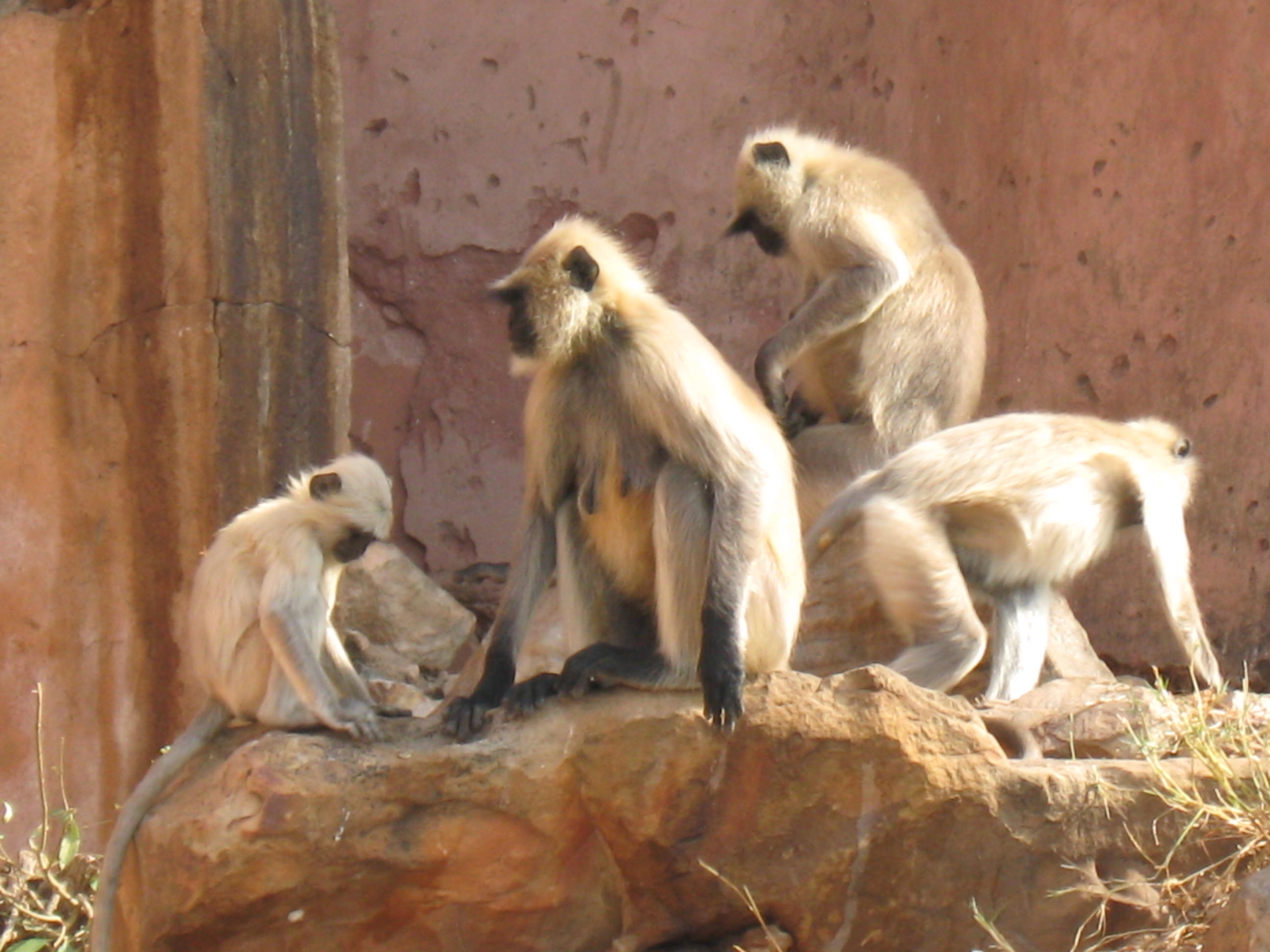 Monkeys in Jaipur, India. I don't know what kind.